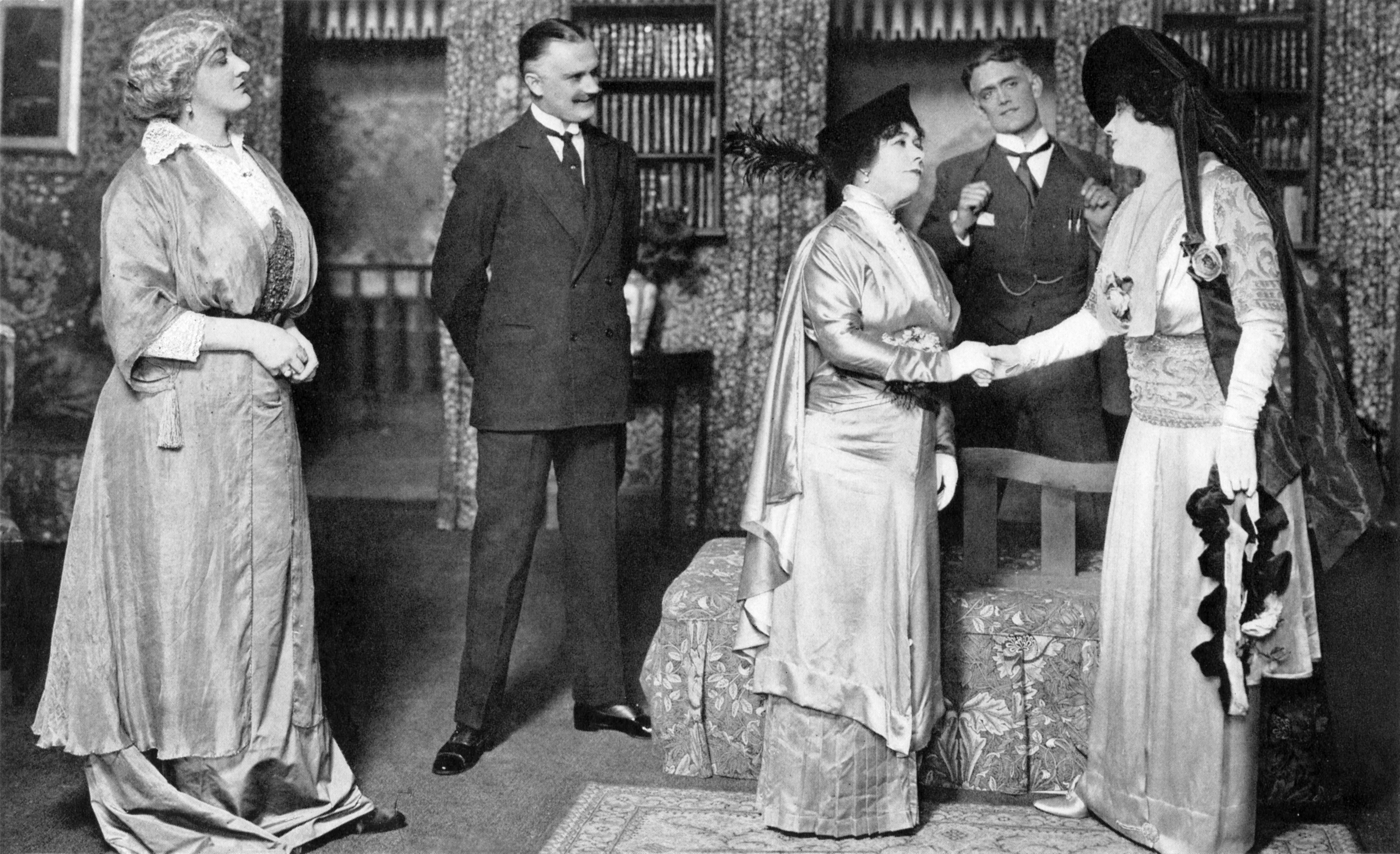 Photograph of the Broadway production of George Bernard Shaw's Pygmalion Caption reads as follows: The flower girl (Mrs. Patrick Campbell) is introduced to high society under the tutelage of Professor Higgins (Philip Merivale). A scene from Bernard Shaw's Pygmalion Merivale played Col. Pickering in the original London production; when the play was taken to Broadway he played the role of Henry Higgins.